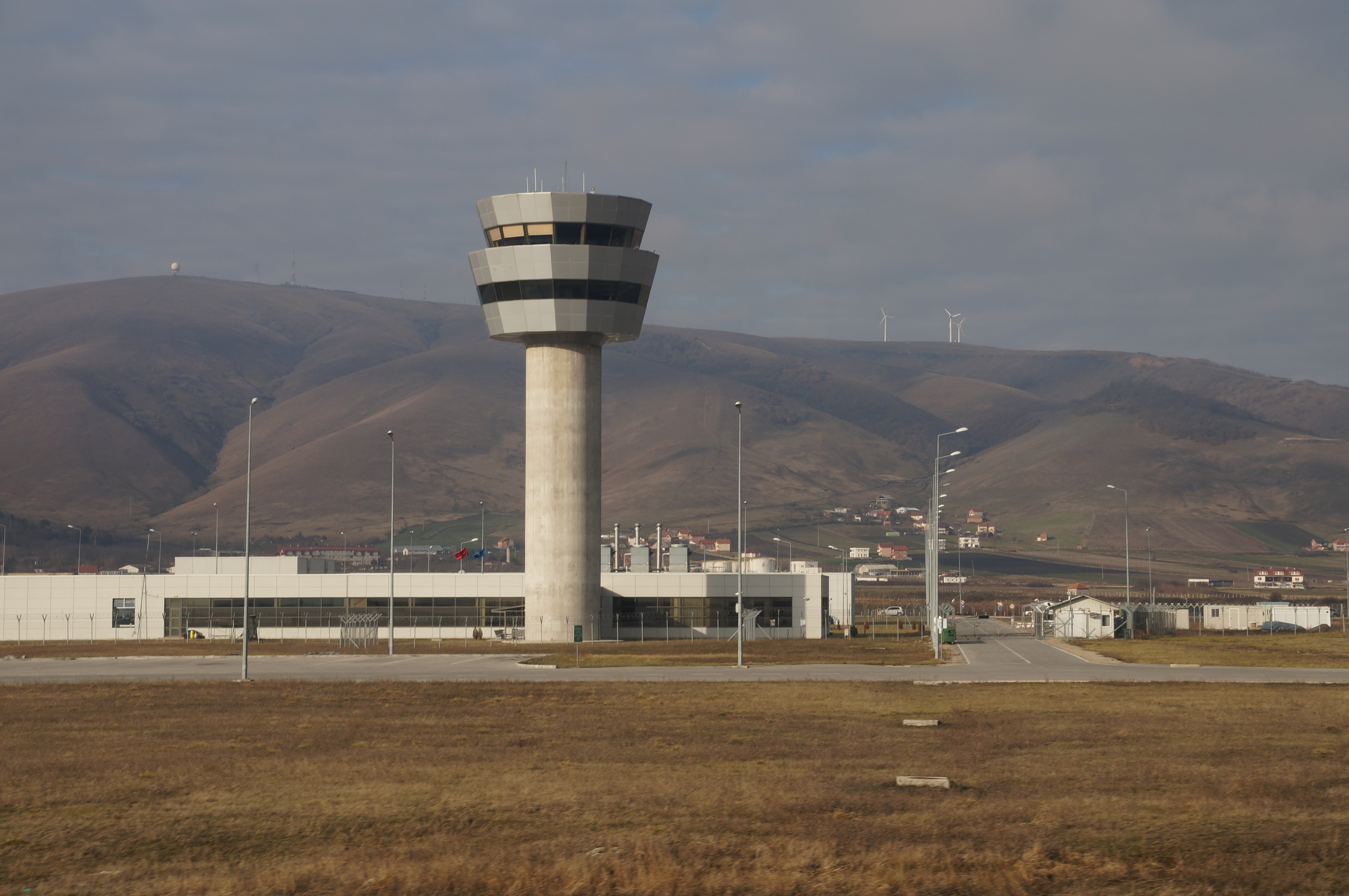 Golesh mountain east of Prishtina, Kosovo